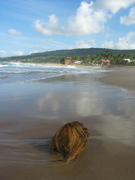 Looking south along the beach in Bathsheba on the Atlantic Coast.